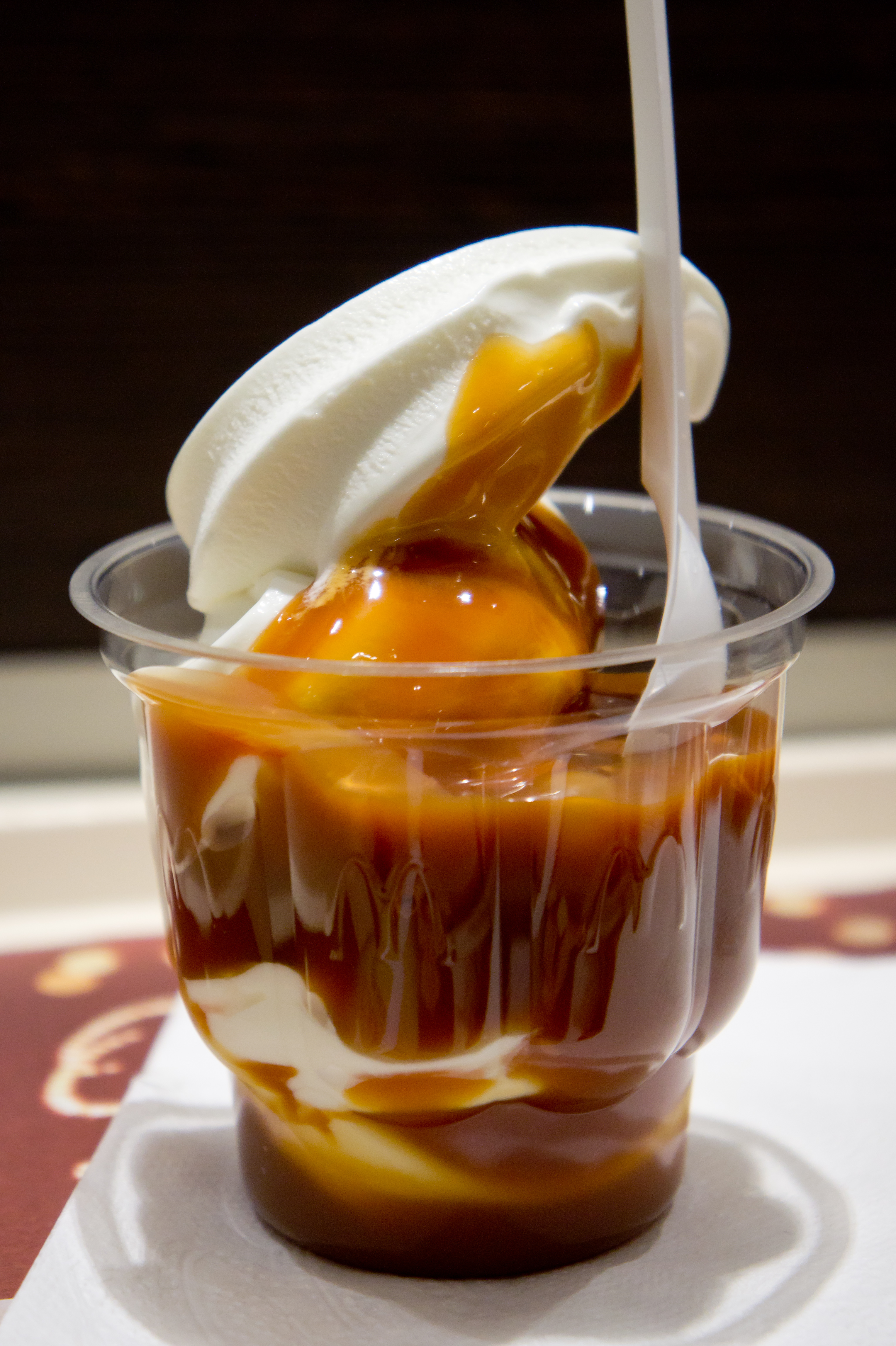 [405/365] With lots of caramel. :-)